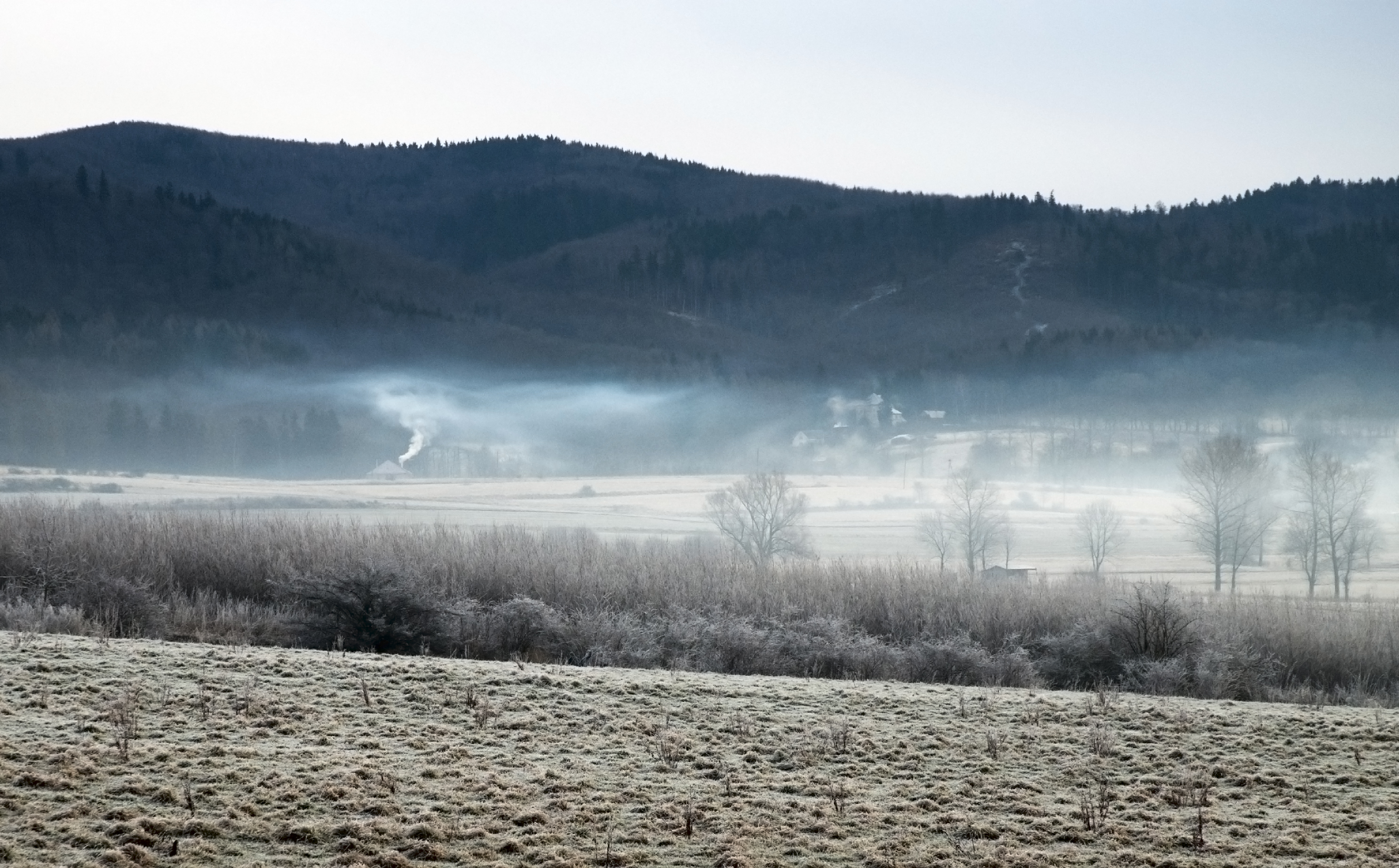 Mists over Wolibórz